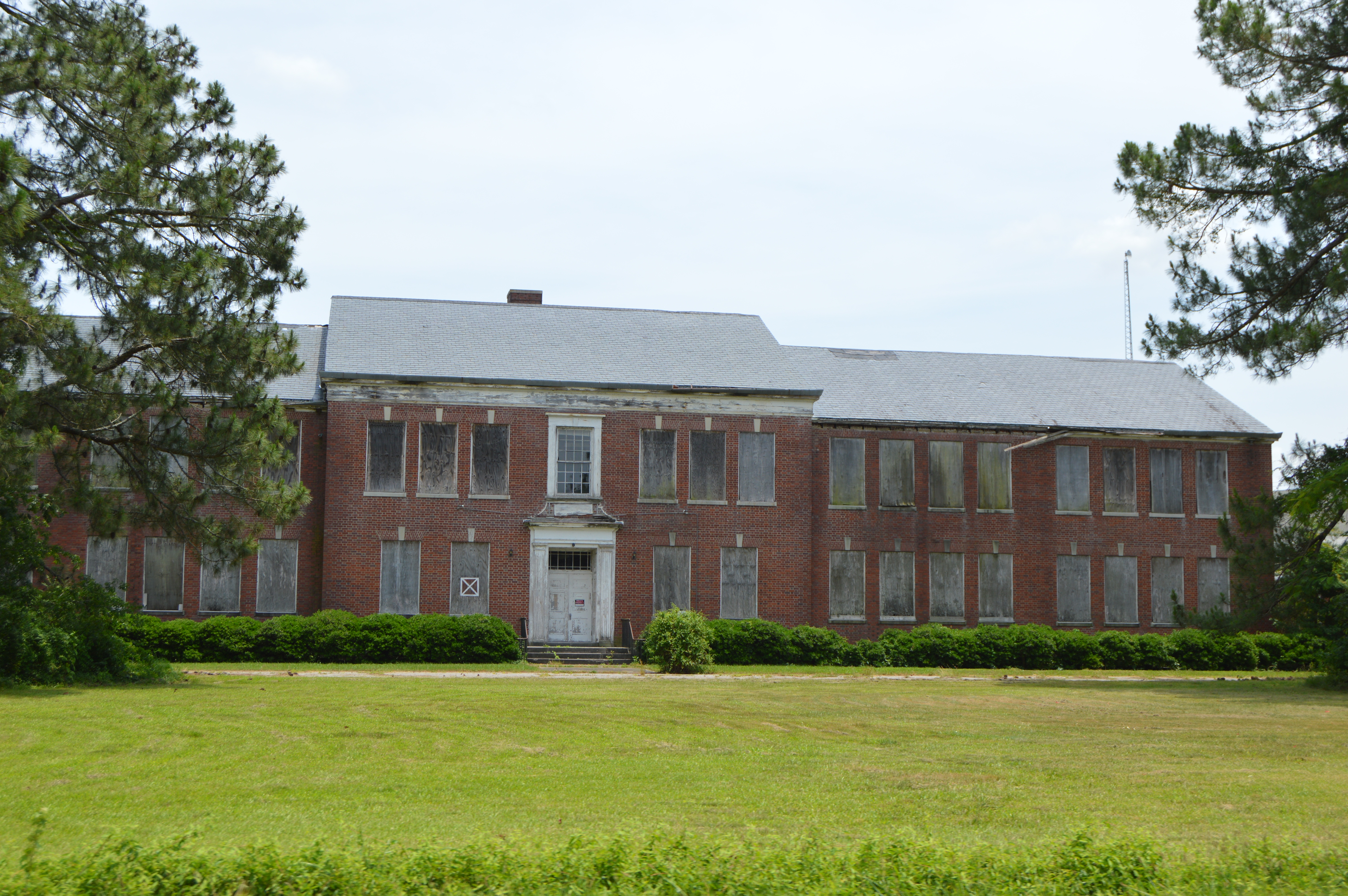 Front of the former Sunbury High School, located on North Carolina Highway 32 in Sunbury, North Carolina, United States. Built in 1937, it is listed on the National Register of Historic Places.